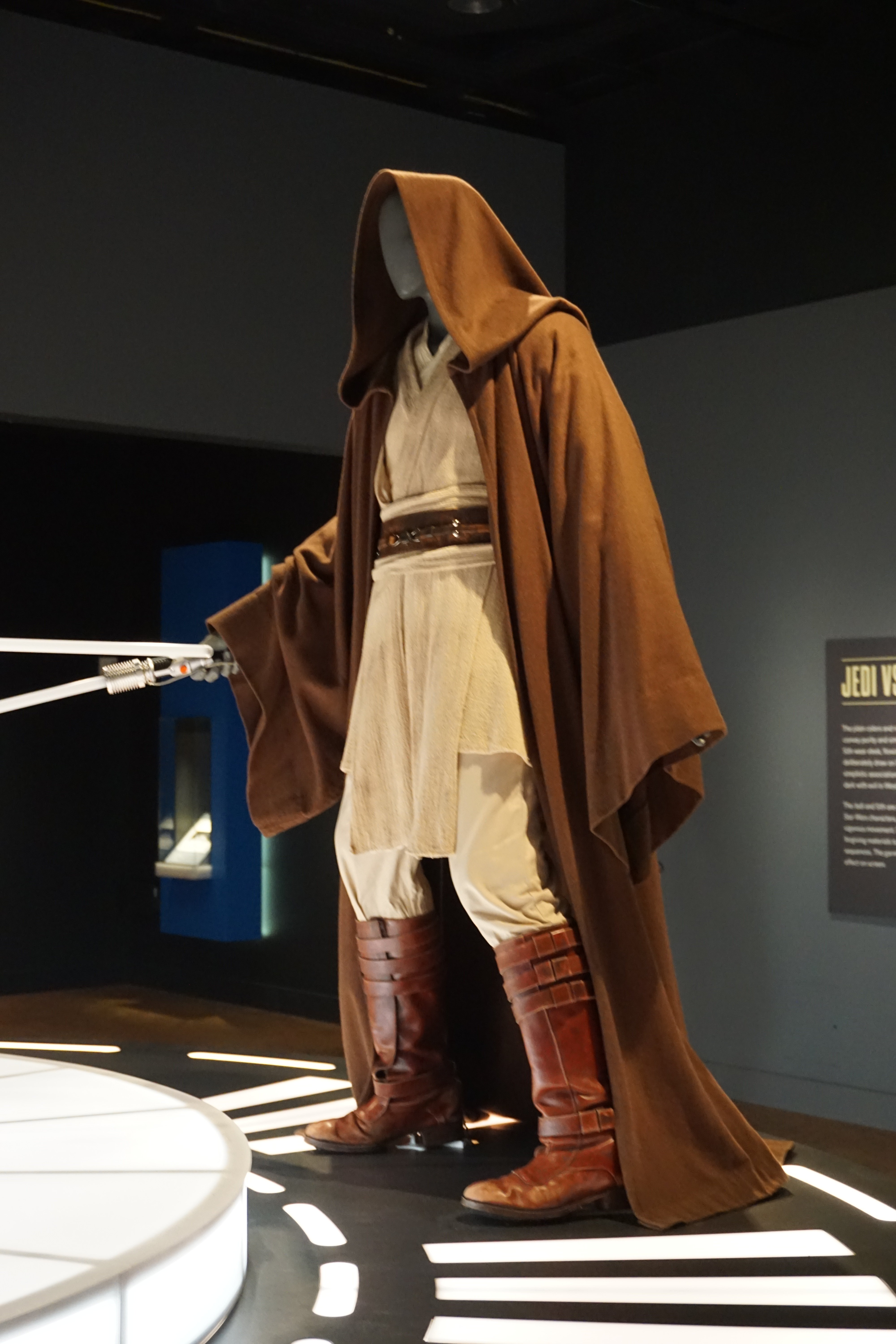 Obi-Wan Kenobi's Jedi robes from Star Wars: Episode I – The Phantom Menace on display at the Star Wars and the Power of Costume traveling exhibit at the Detroit Institute of Arts in Detroit, Michigan (United States).